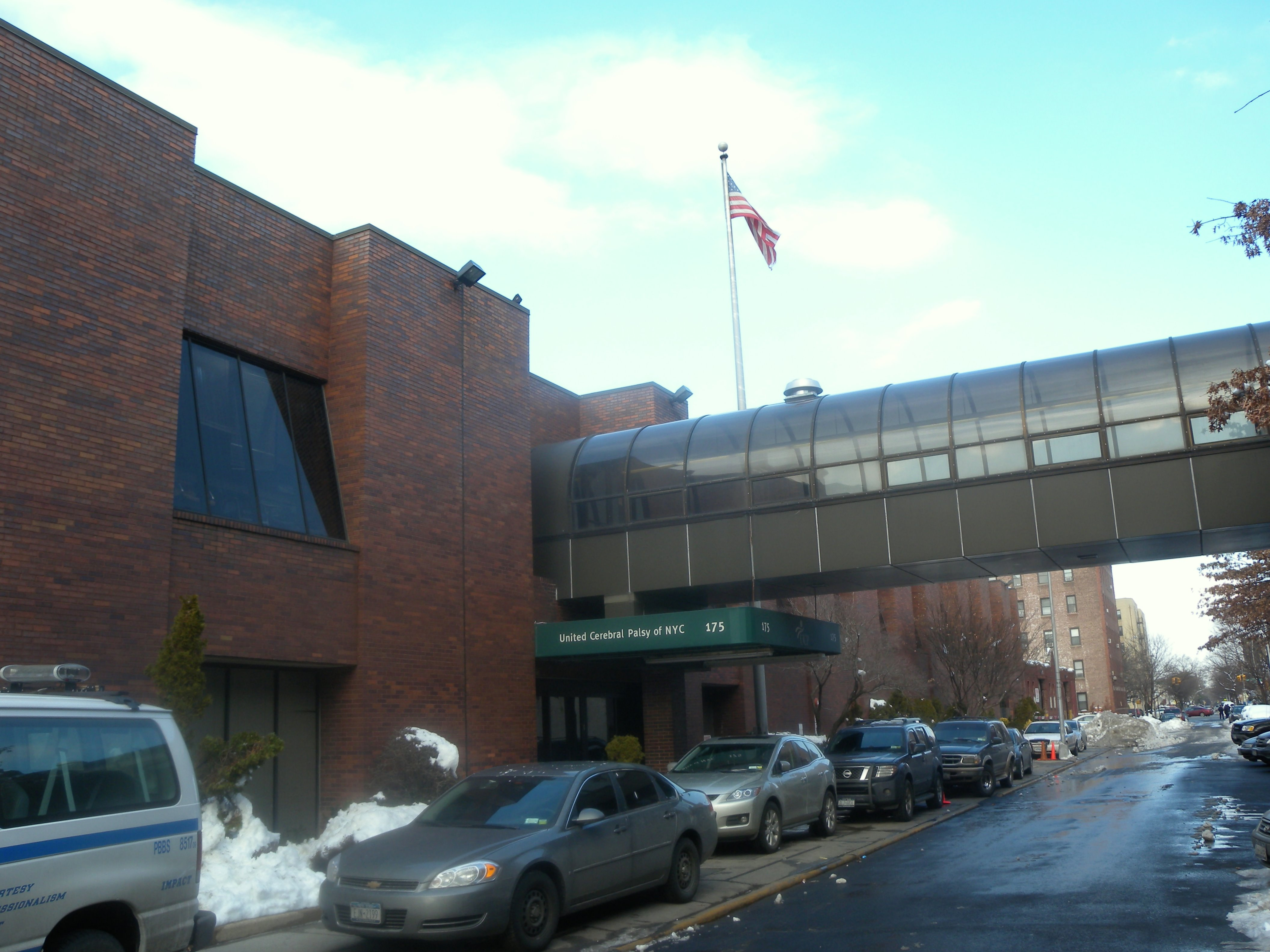 Looking north at United Cerebral Palsy office on a cloudy afternoon.